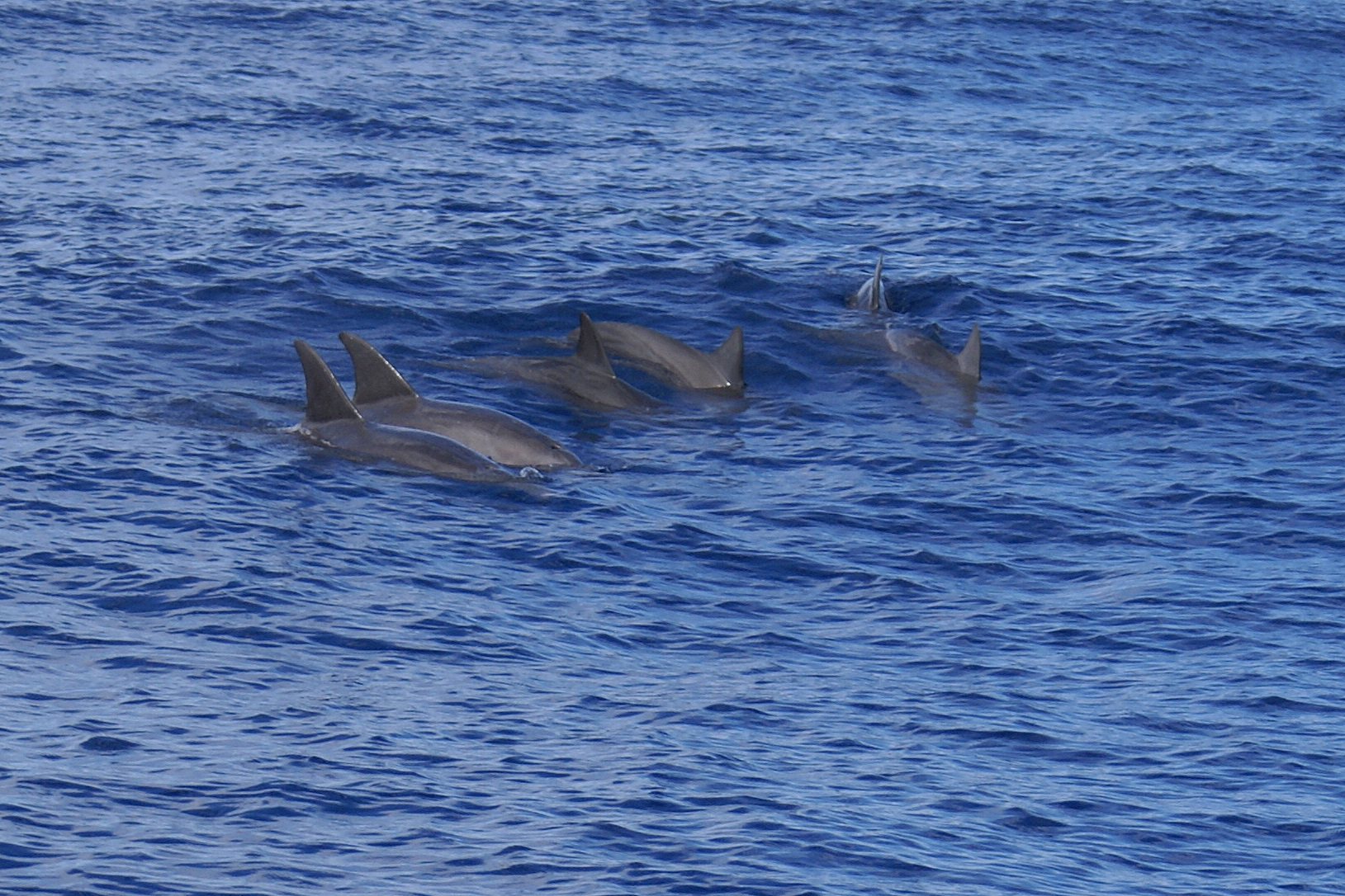 Tursiops aduncus along Réunion island shore